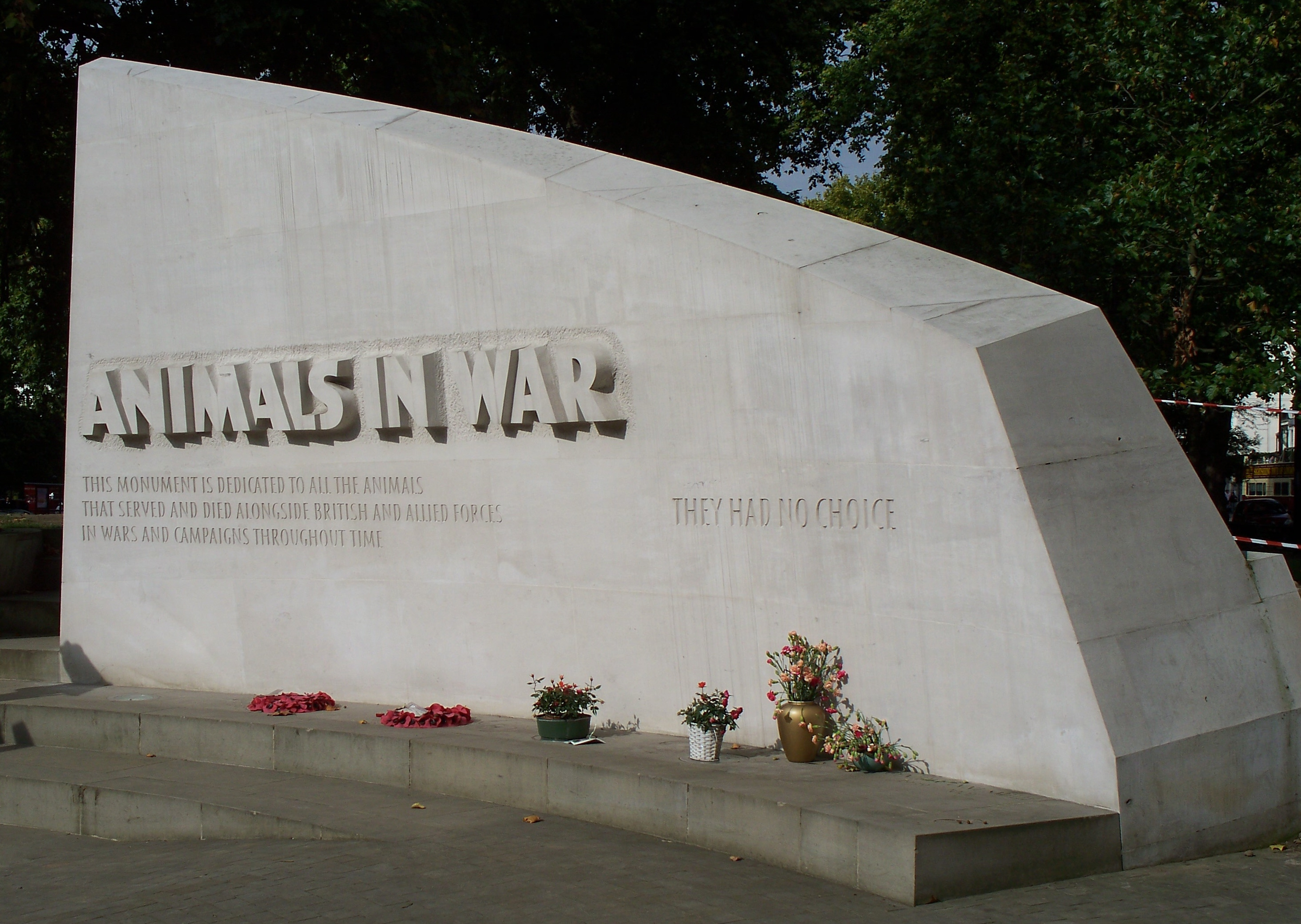 Animals in War memorial, London (detail)